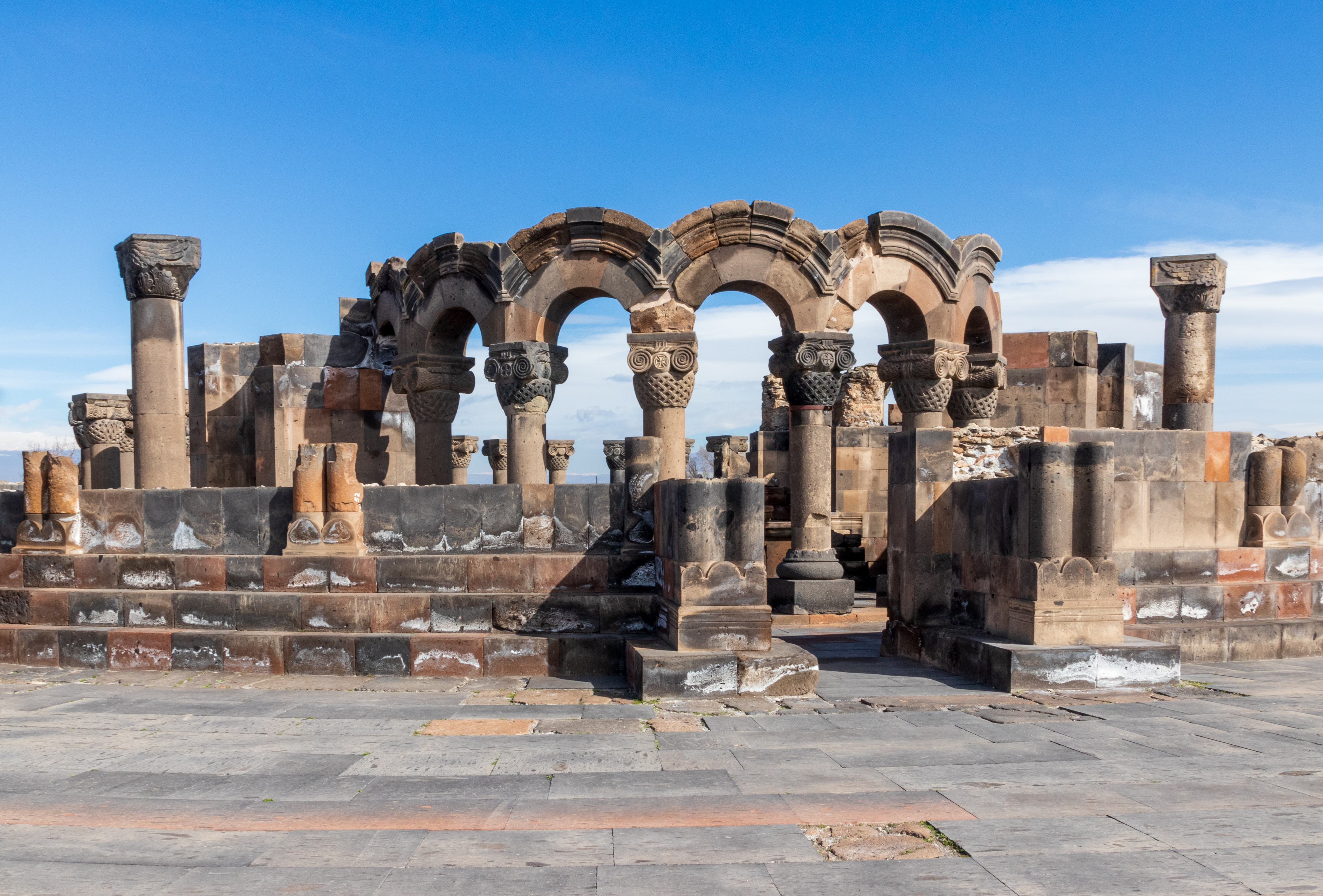 ruins of Zvartnots cathedral.